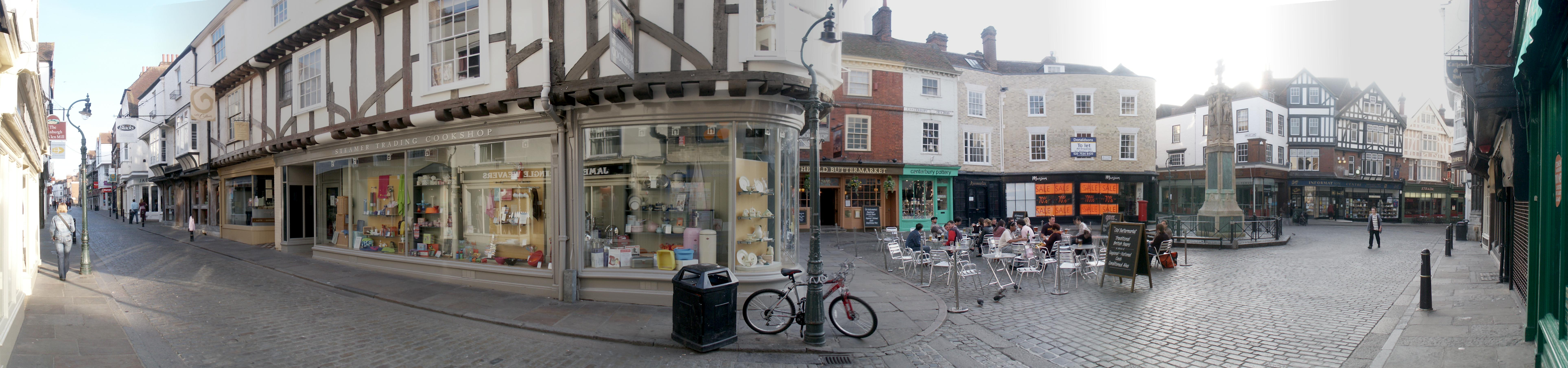 The Buttermarket, Canterbury